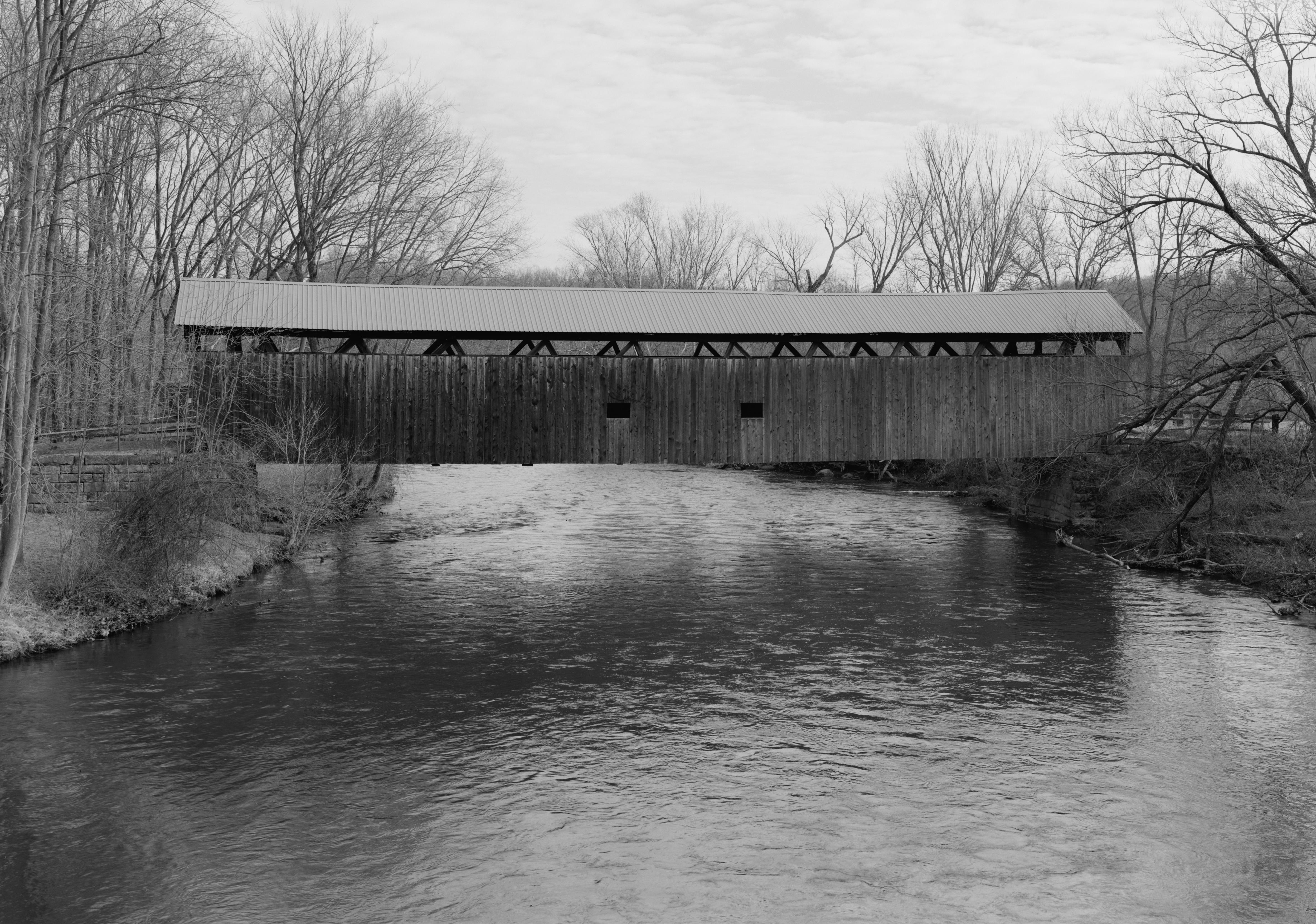 Northern (upstream) side of the Kidd's Mills Covered Bridge, which carries Kidd's Mill Road over the Shenango River in Pymatuning Township, Mercer County, Pennsylvania, United States. Built in 1868, it is part of the Kidd's Mills Covered Bridge Historic District, a historic district that is listed on the National Register of Historic Places.